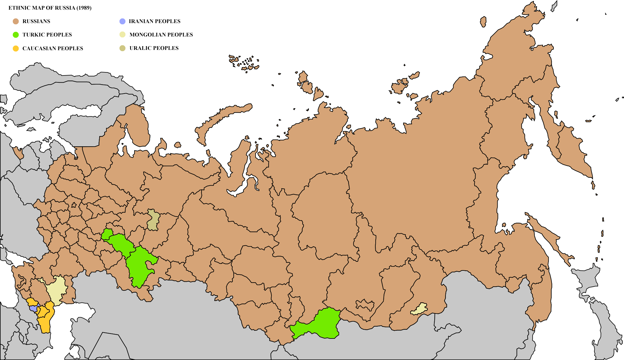 Ethnic map of Russia (1989) I am author Sources: 1. 2. Russian census, 1989